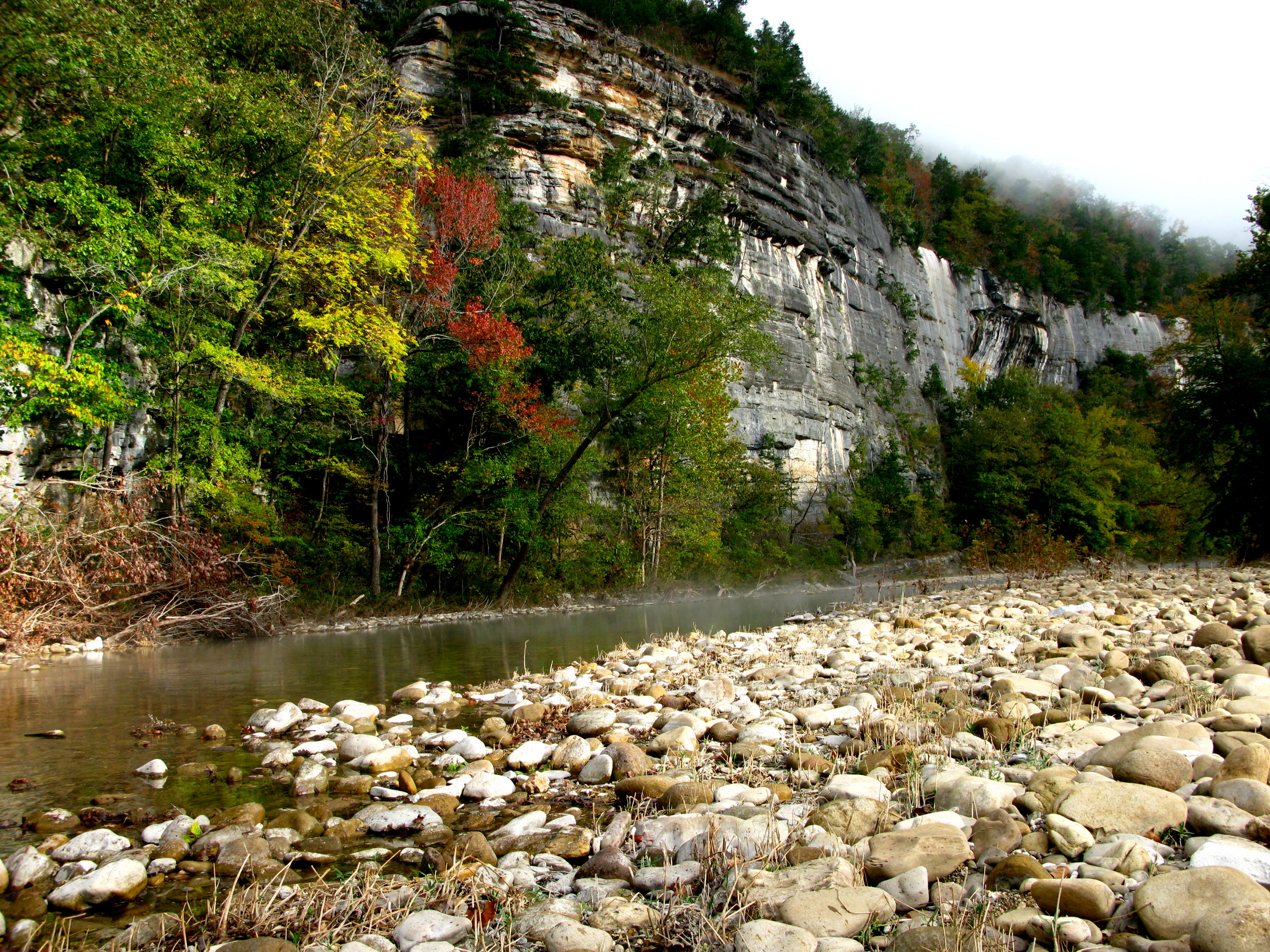 Fall Break, Buffalo National River, Arkansas.